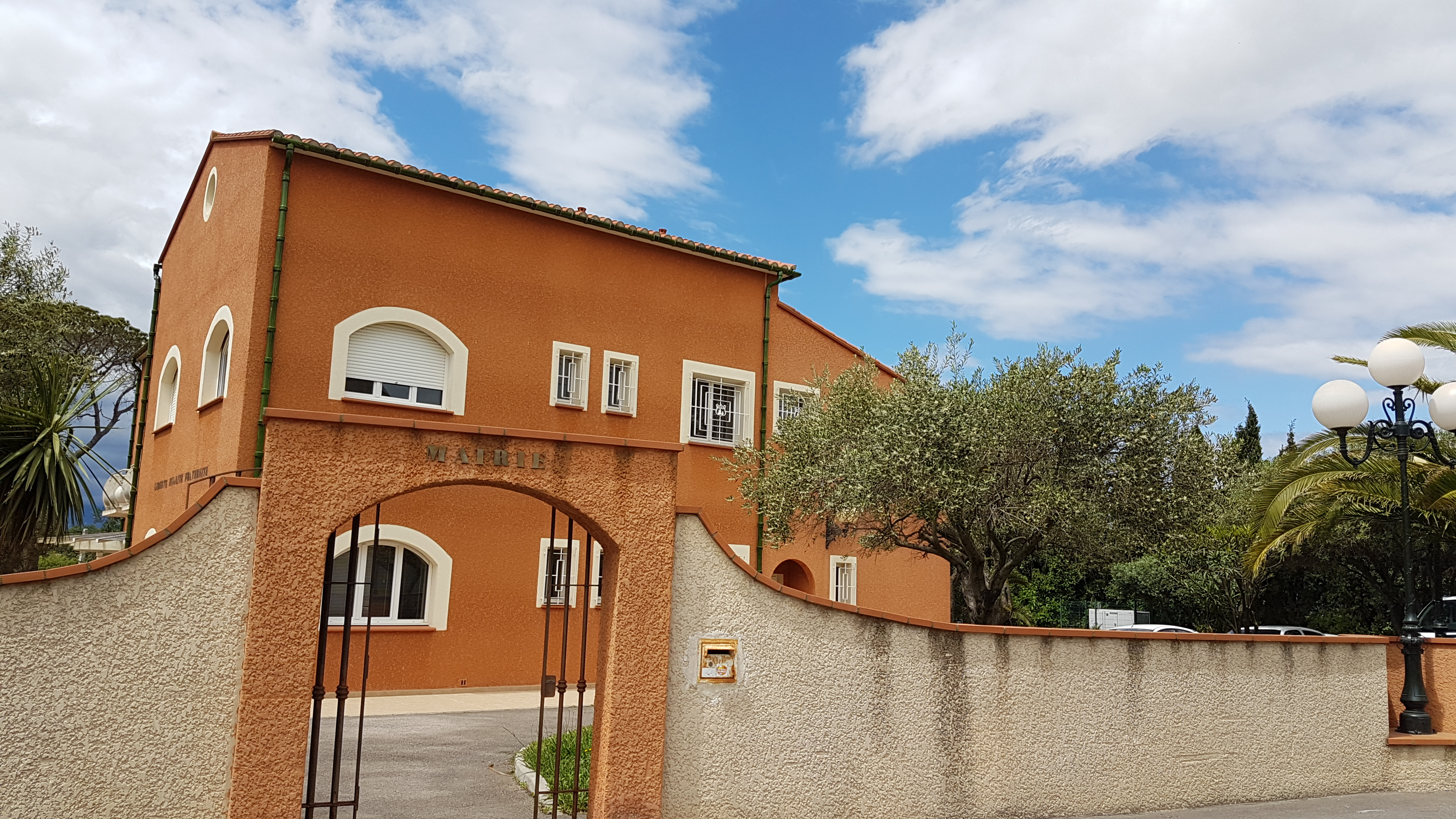 The town hall of Ponteilla